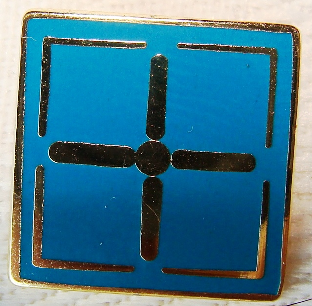 An ITIL Intermediate Certificate pin used to attatch on a shirt.